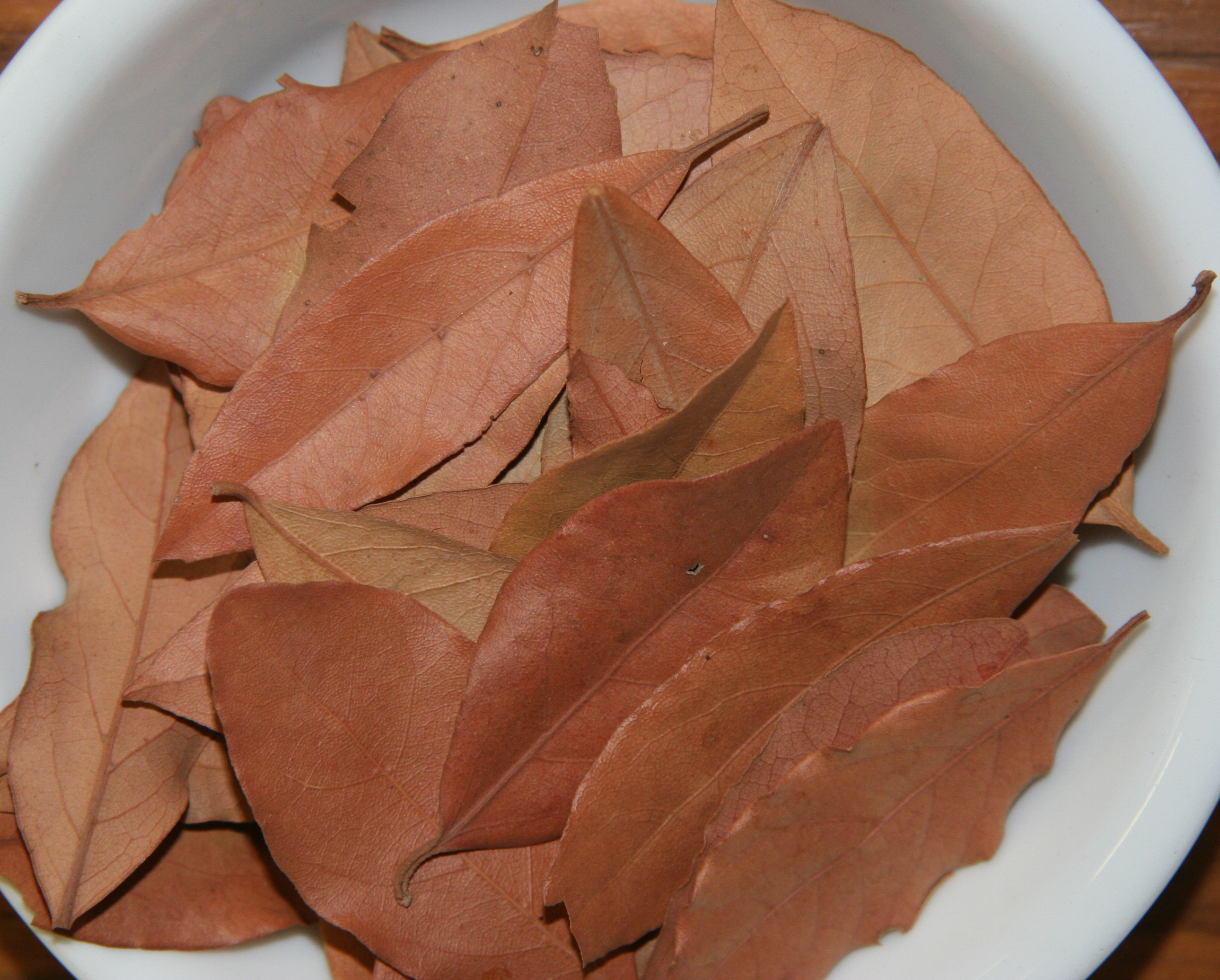 A bowl of dried bay leaves for use in cooking